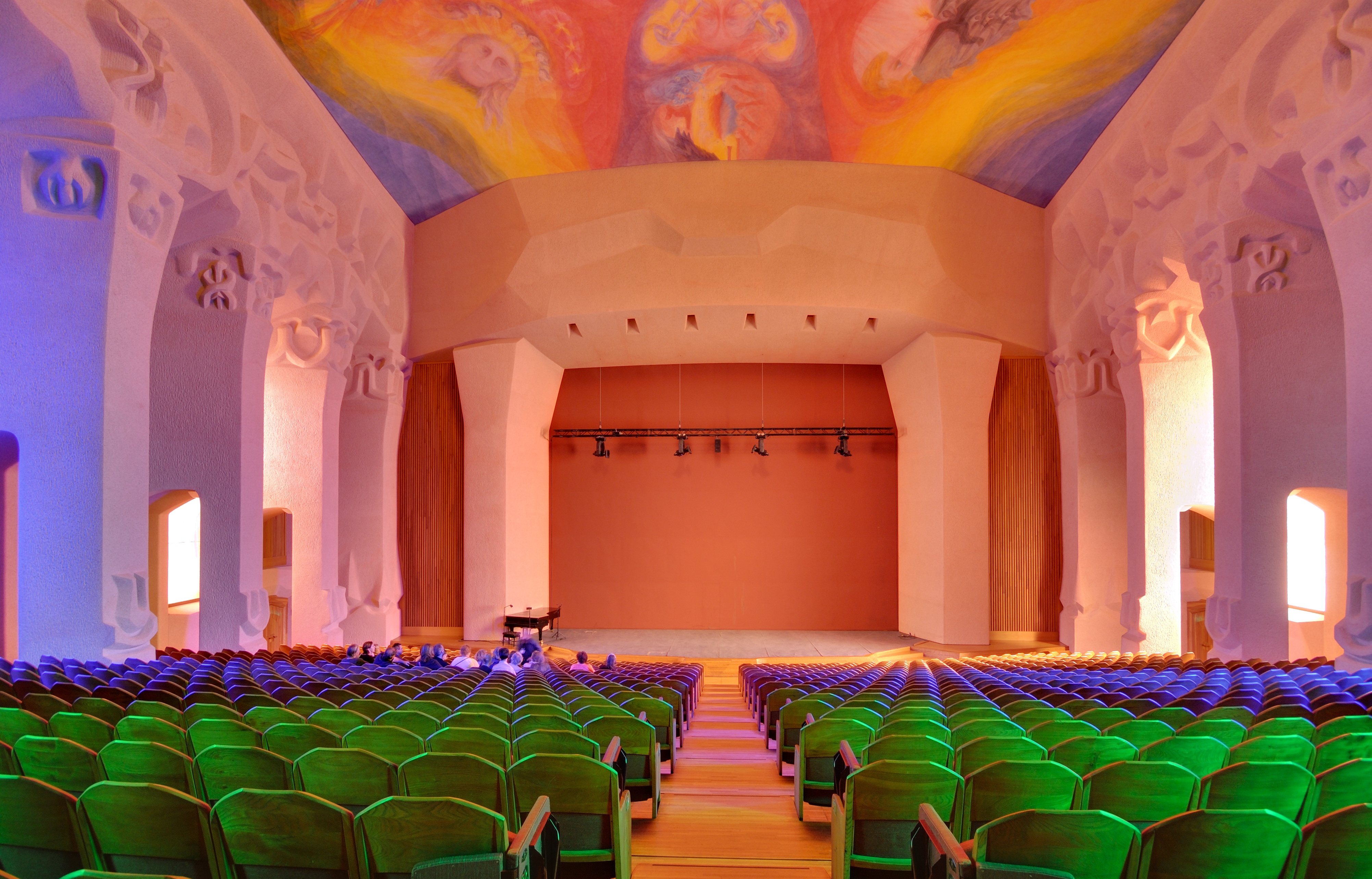 Goetheanum: Great hall